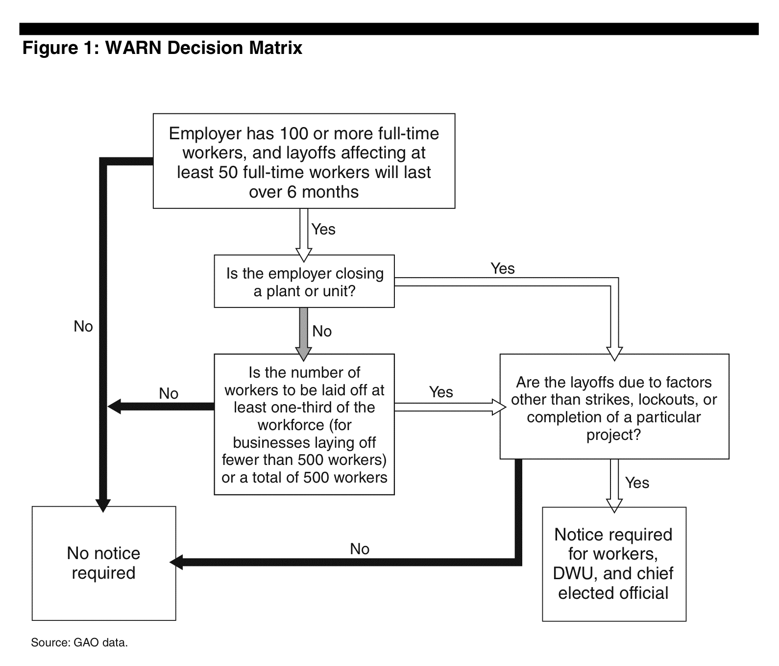 The matrix provides an overview of how employers, workers, and chief elected officials can determine if a closure or layoff requires 60 days' advance notice from employers. The matrix depicts criteria found in the Worker Adjustment and Retraining Notification (WARN) Act, a federal law in the United States of America since 1989.